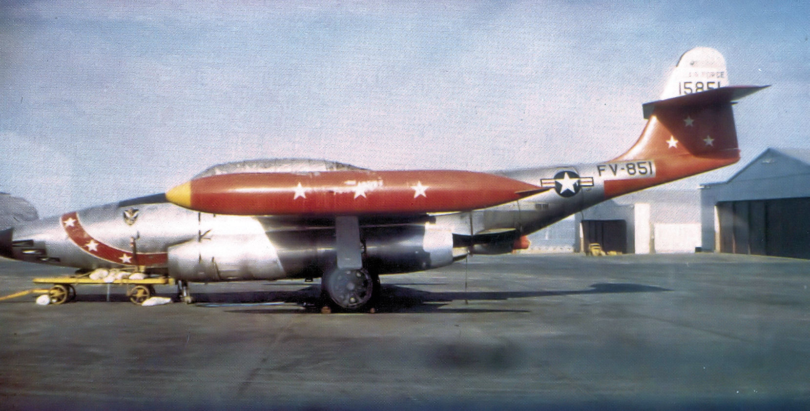 74th Fighter-Interceptor Squadron Northrop F-89C-40-NO Scorpion 51-5851, Presque Isle Air Force Base, Maine, 1954